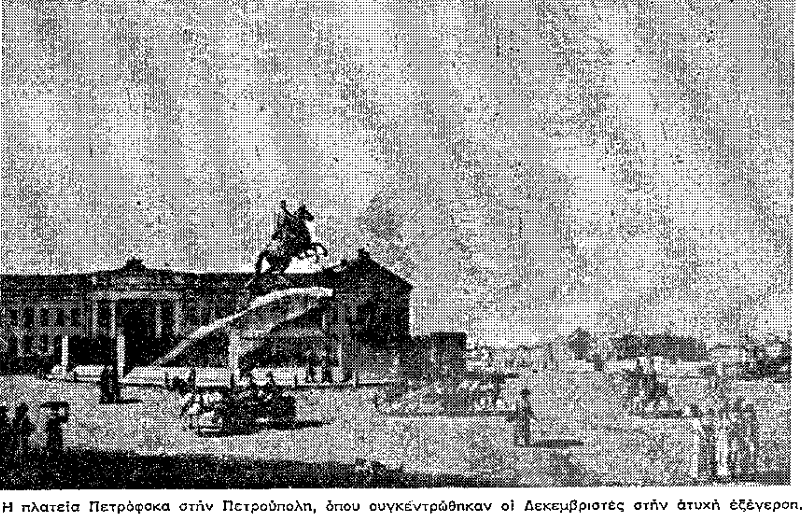 Petrovska square